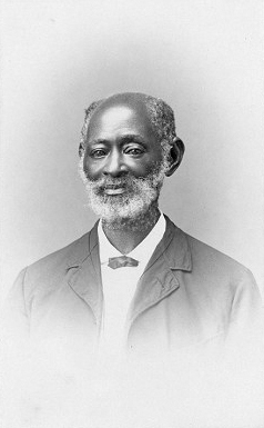 Portrait of Aquisie Boachi in the Dutch East Indies